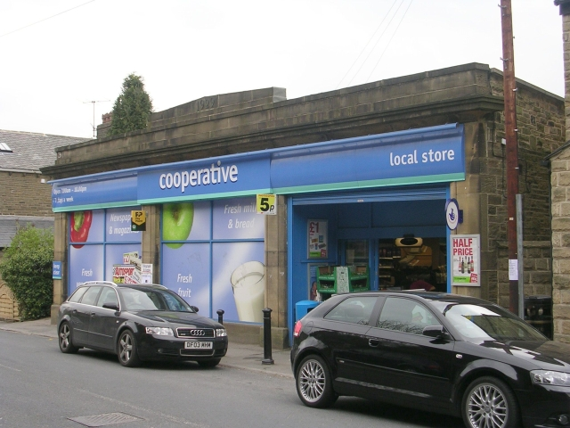 Cooperative Local Store - Station Road Built 1929.